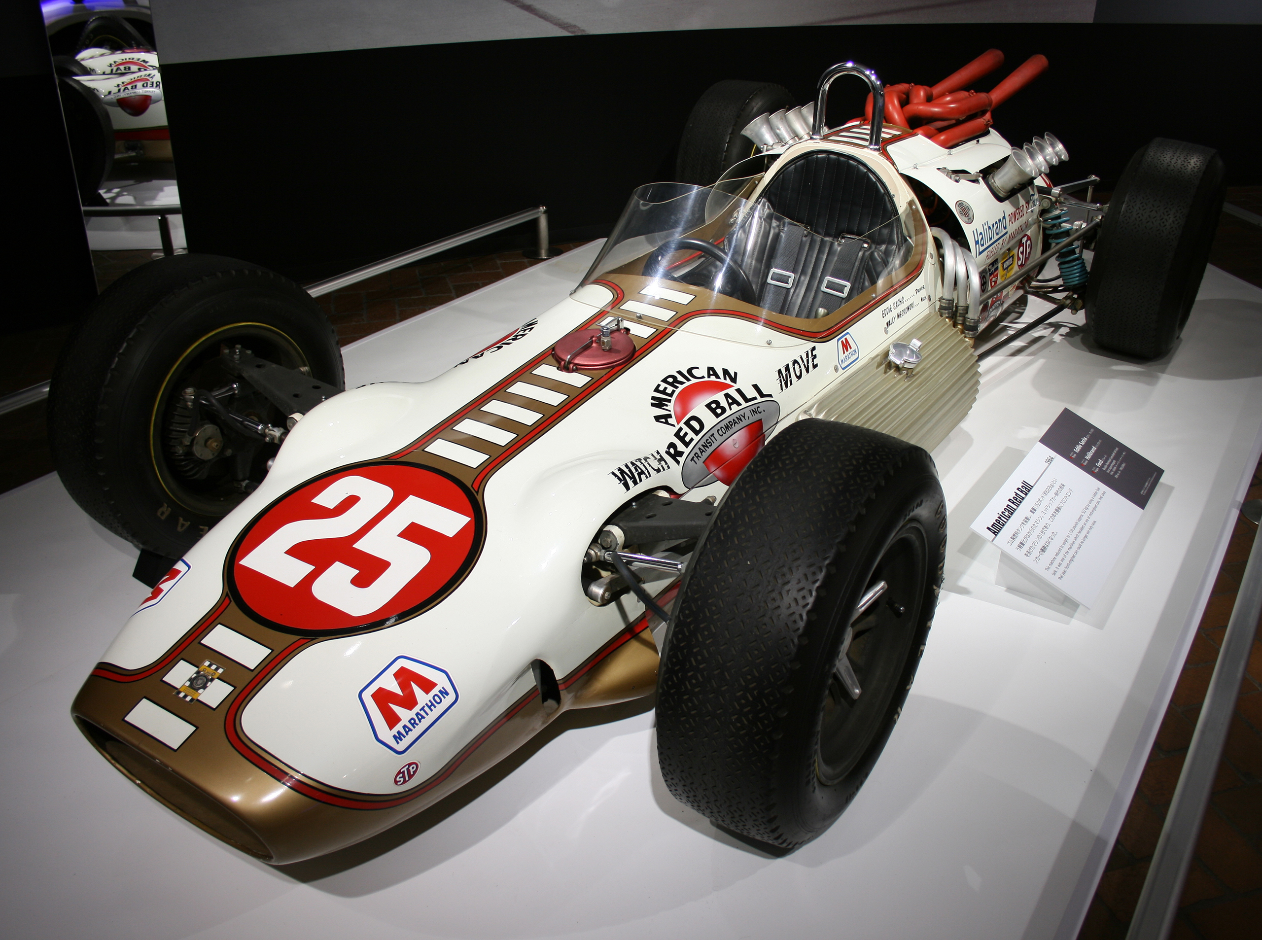 The American Red Ball team's Heilbrand-Ford for the 1964 Indianapolis 500, from Indianapolis Motor Speedway Hall of Fame Museum.. The car was one of early mid-engined IndyCars.